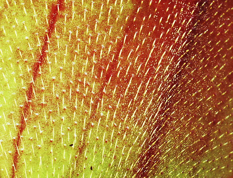 Macro photograph of hairlike fibers on a Heliamphora ionasi, a species of Marsh Pitcher Plant.